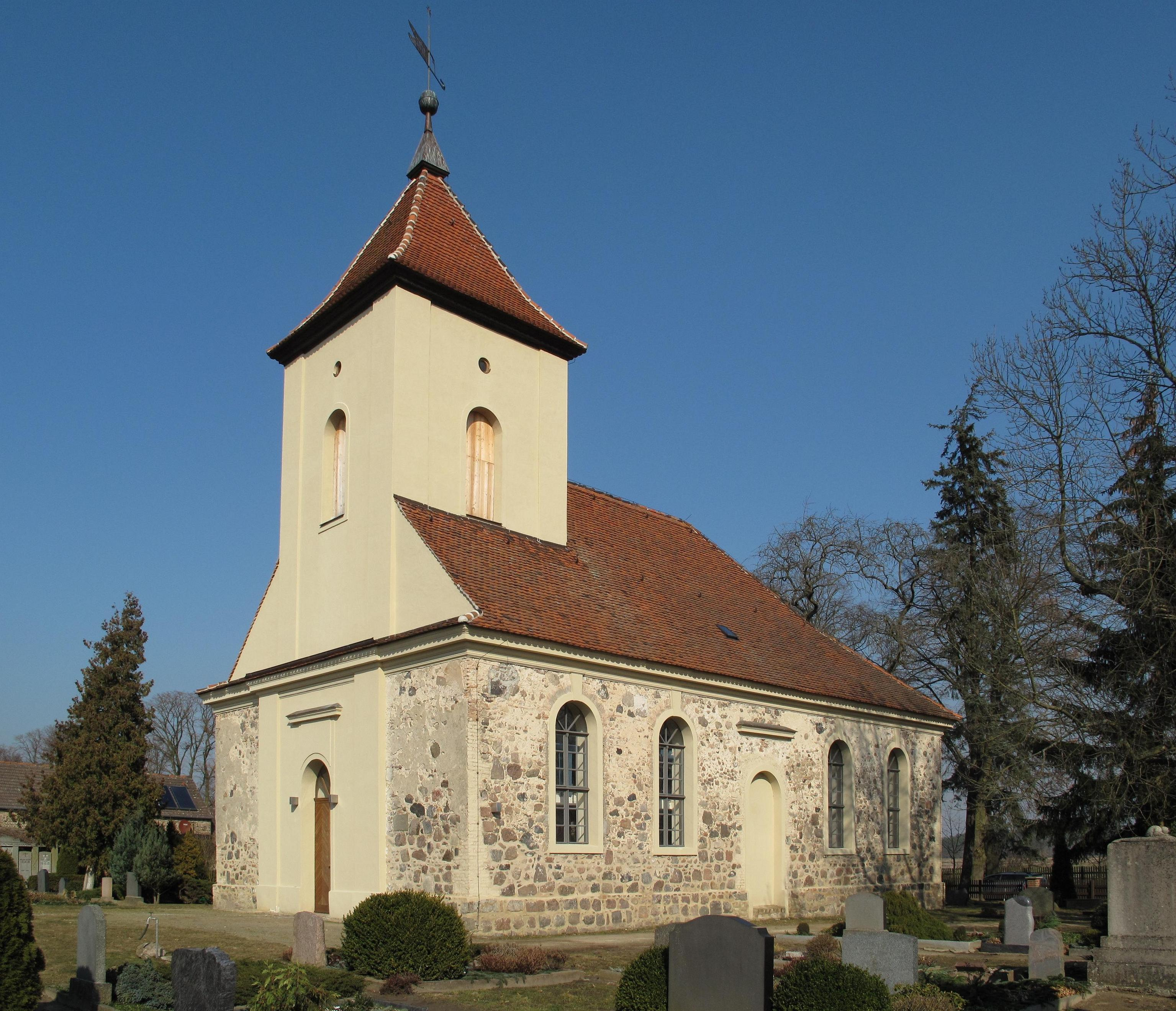 Listed village church in Langerwisch, built in 1772. Langerwisch is a part of Michendorf in the district Potsdam-Mittelmark, state Brandenburg, Germany.